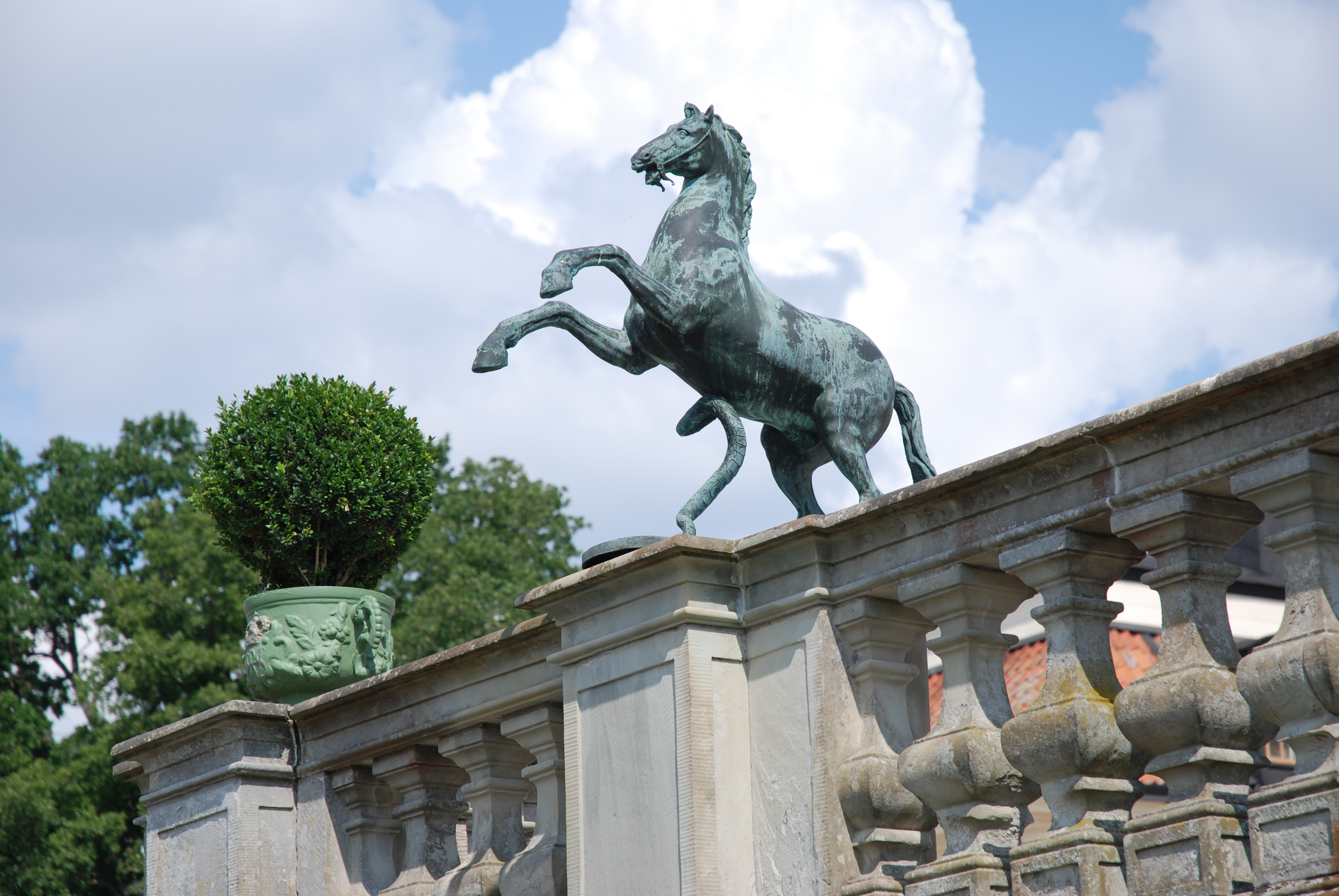 Bronze horse by Adriaen de Vries, Drottningjolm Castle, Sweden